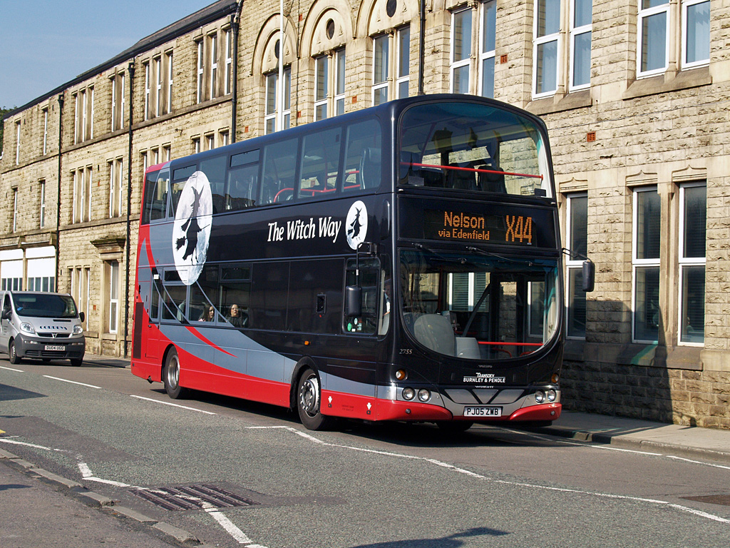 Burnley & Pendle Travel Limited 2755 (PJ05 ZWB) Jane Bulcock, a Volvo B7TL built 2005 with a Wright Eclipse Gemini DPH39/29F body passes by Bacup Road bus station, Rawtenstall with the 10:40 Manchester Chorlton Street to Nelson bus station via Prestwich, Edenfield, Rawtenstall and Burnley X44 service. Thursday 18th September 2008